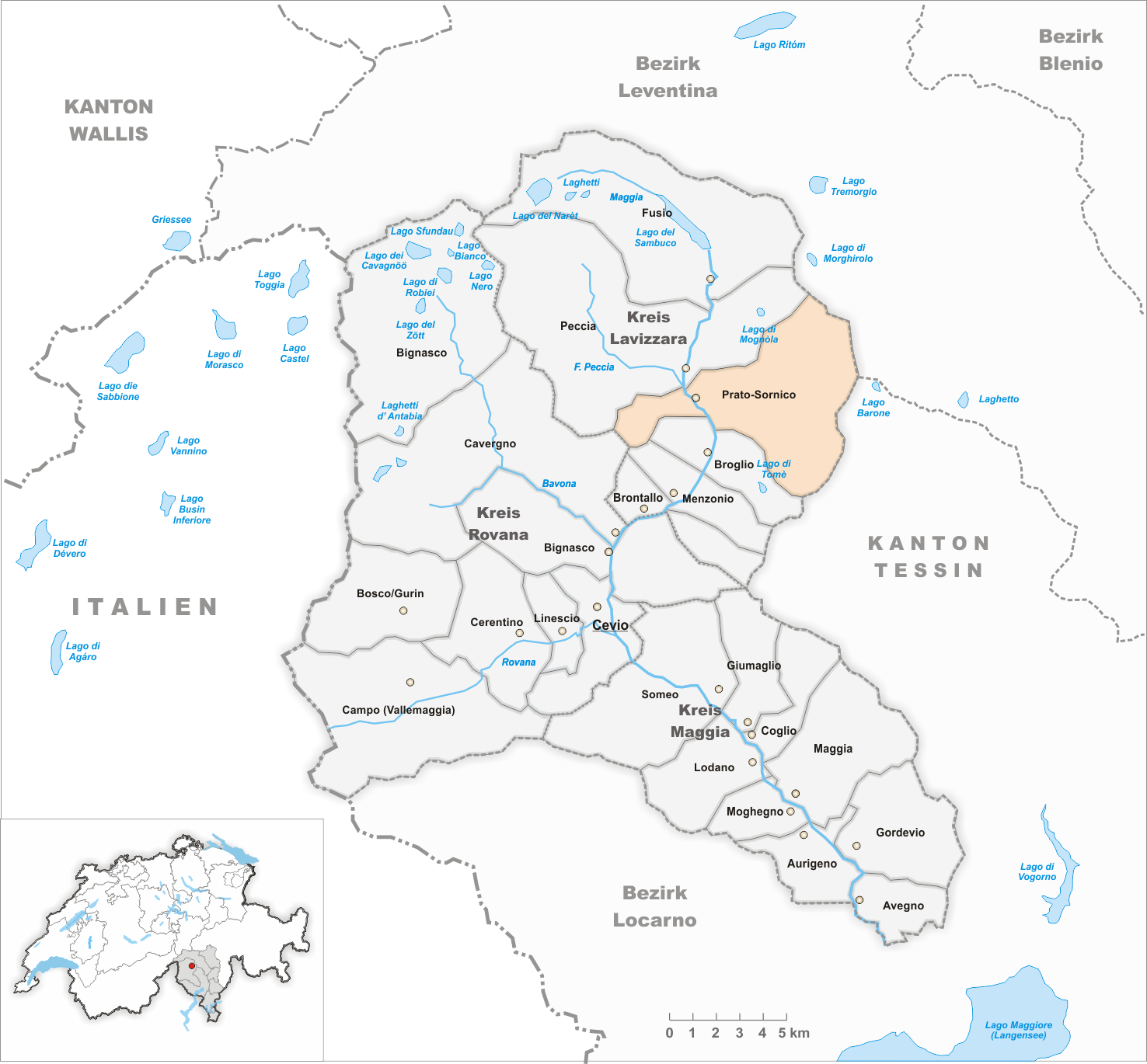 Municipality Prato-Sornico